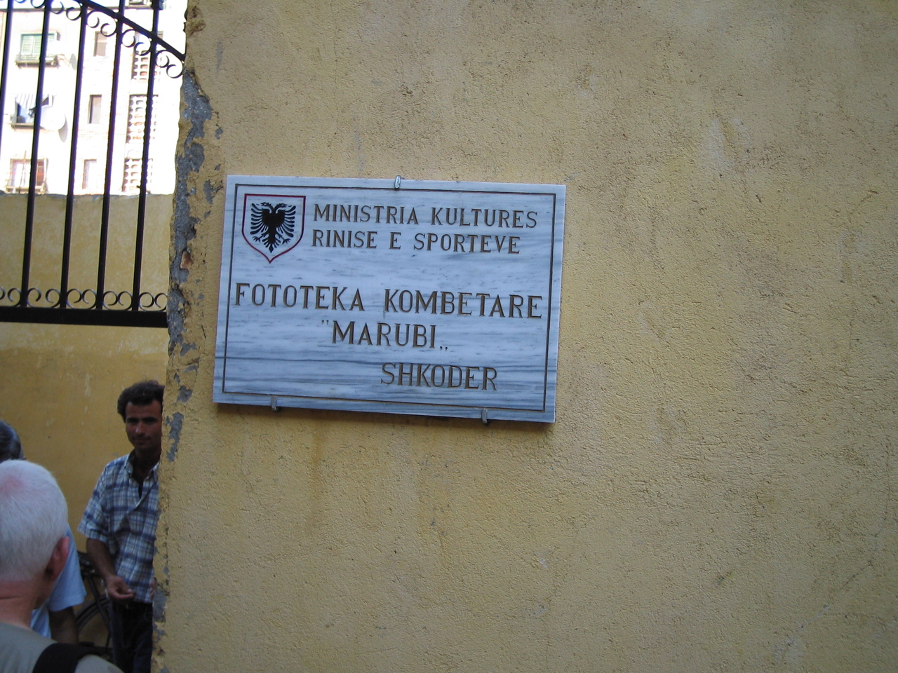 Sign at the entry to the Fototeka Marubi, the Photographic Museum in Shkodra, Albania